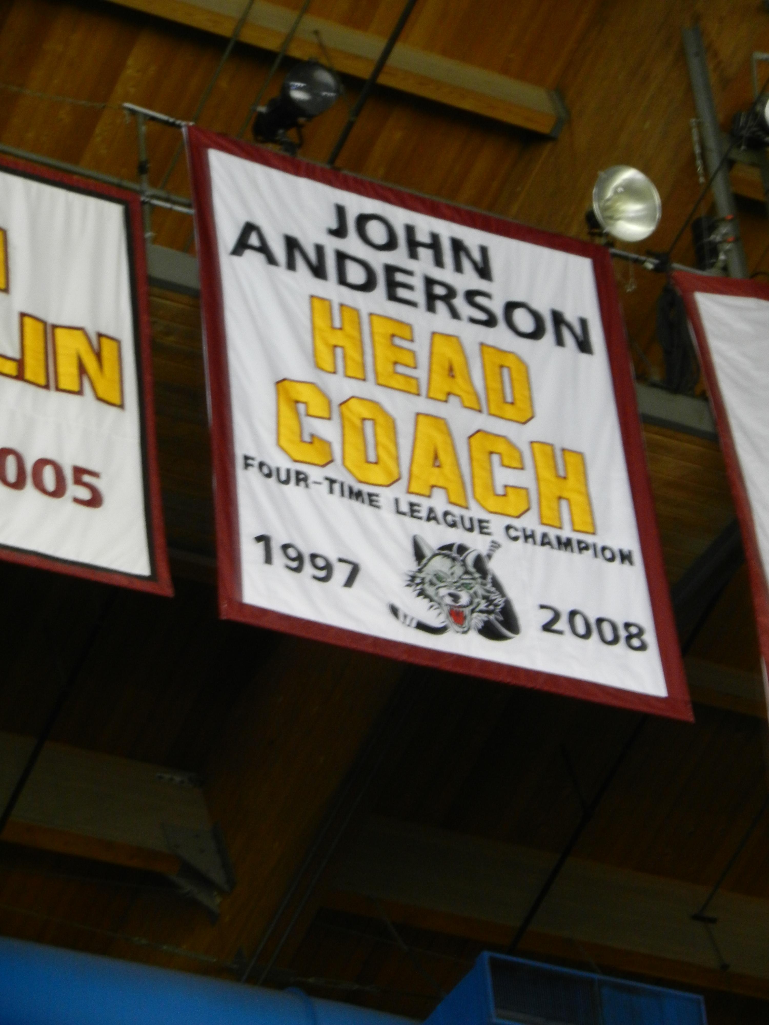 Banner honoring John Anderson for his coaching success for the Chicago Wolves hanging in the Allstate Arena